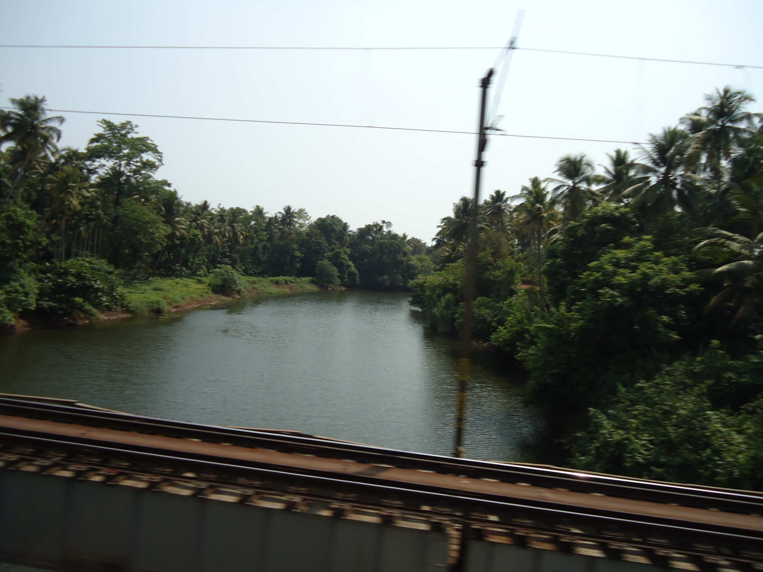 This media file is uploaded with Malayalam loves Wikimedia event.